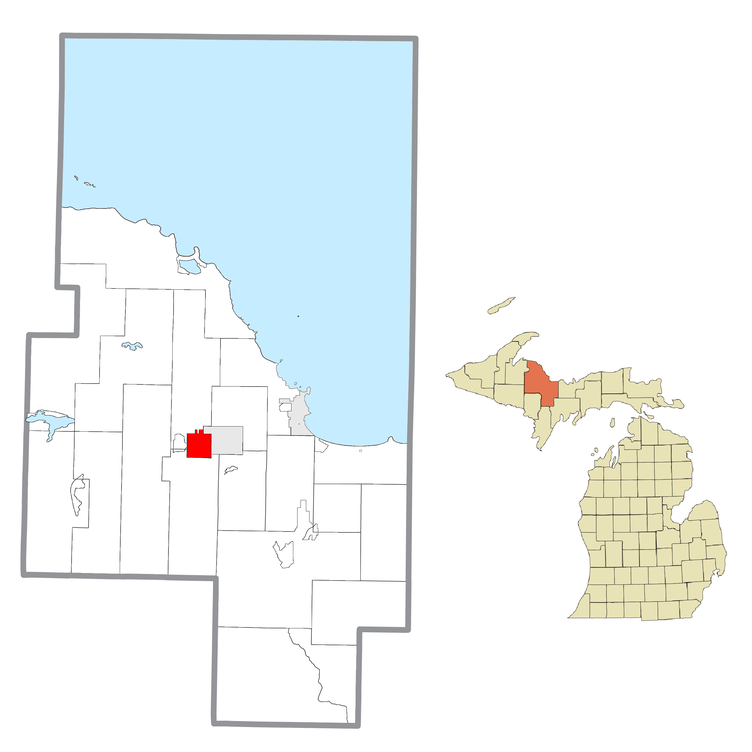 Ishpeming, MI